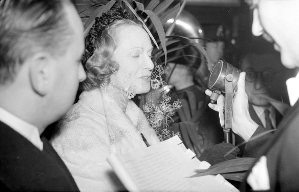 We see a close up of Mrs. Neagle wearing a veil and responding to an interview in front of a microphone.